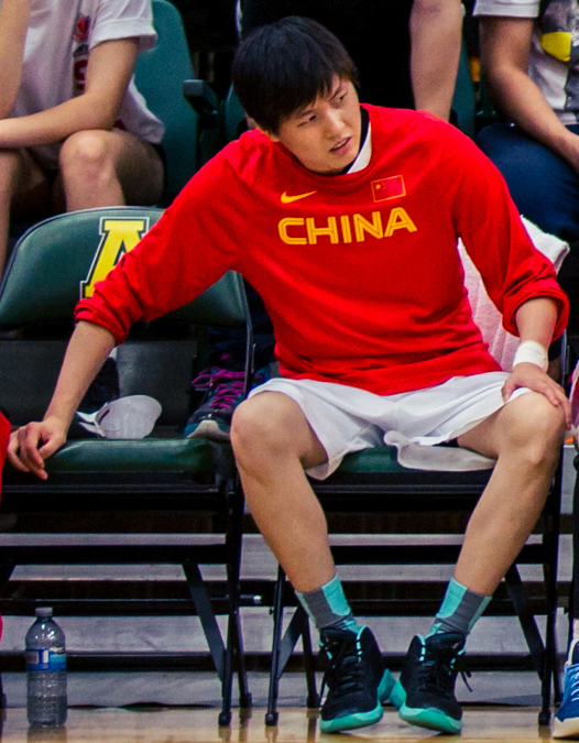 Li Shanshan (basketball) sitting on the bench during the 2016 Edmonton Grads International Classic series